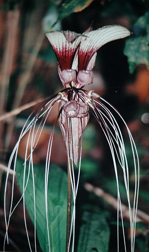 Bat or Black Lily photographed at Lower Peirce